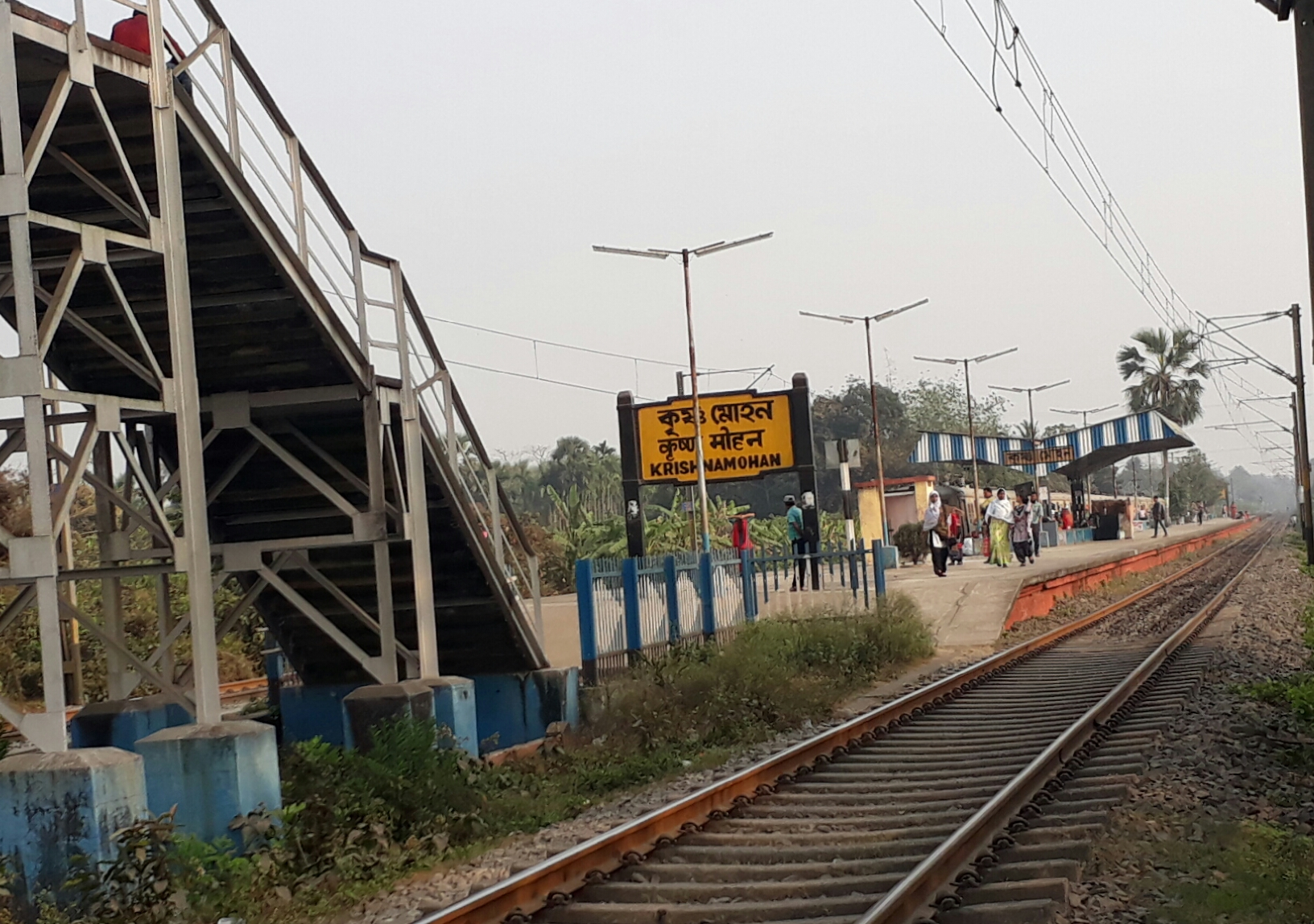 Krishnamohan Halt Station, Sealdah south section